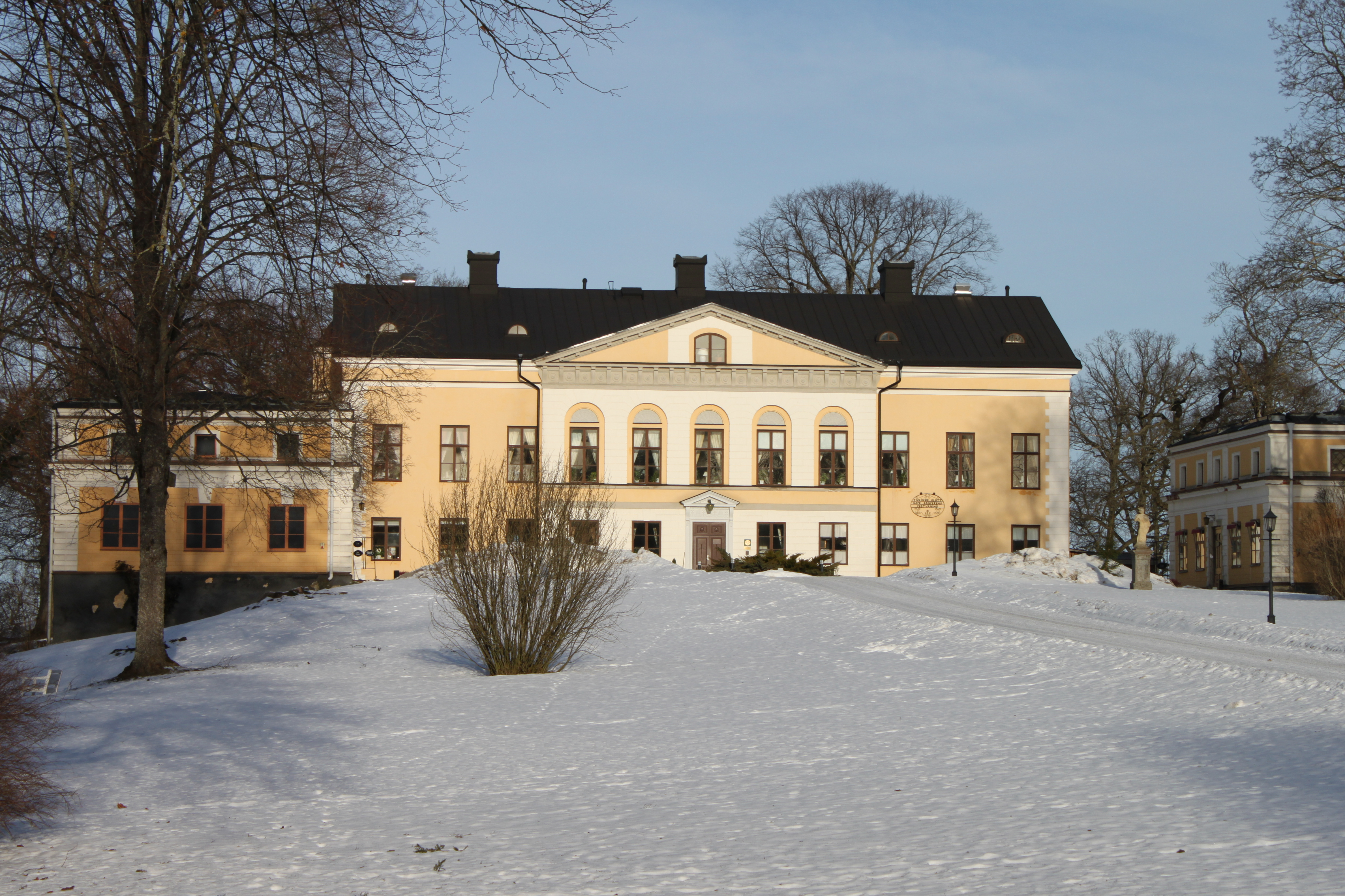 Taxinge castle, Nykvarn, Sweden